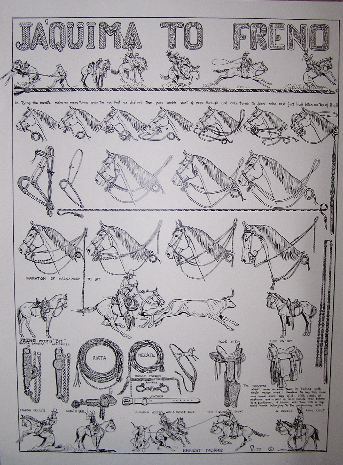 Poster showing the training of a hackamore horse into a finished spade bit horse. Image taken with staff permission at Three Forks Saddlery, Three Forks, MT